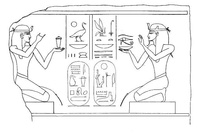 Drawing of a pedestal depicting twice pharaoh Usermaatre-setepenamun Iuput-sibast-meriamun (Iuput II) kneeling, as well as his cartouches. From Tell el-Yahudiya, end-23rd Dynasty, Third Intermediate Period.